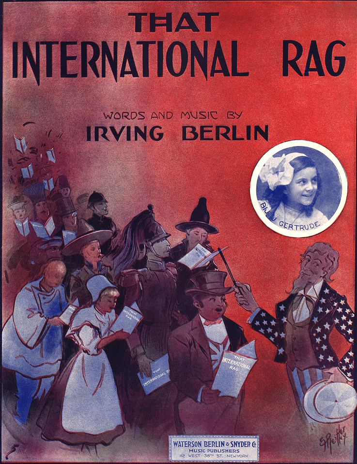 "That International Rag" sheet music (page 1 of 5)